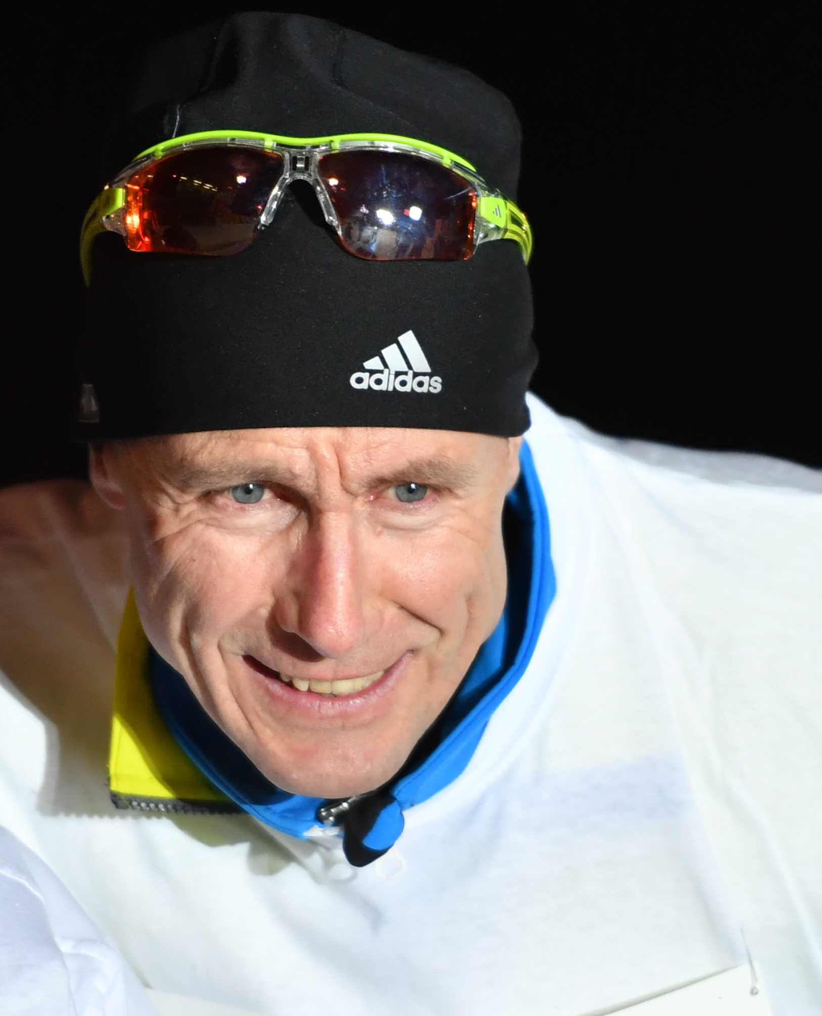 FIS World Cup Nordic Combined, Ramsau/Austria, 2016-12-16 to 2016-12-18.